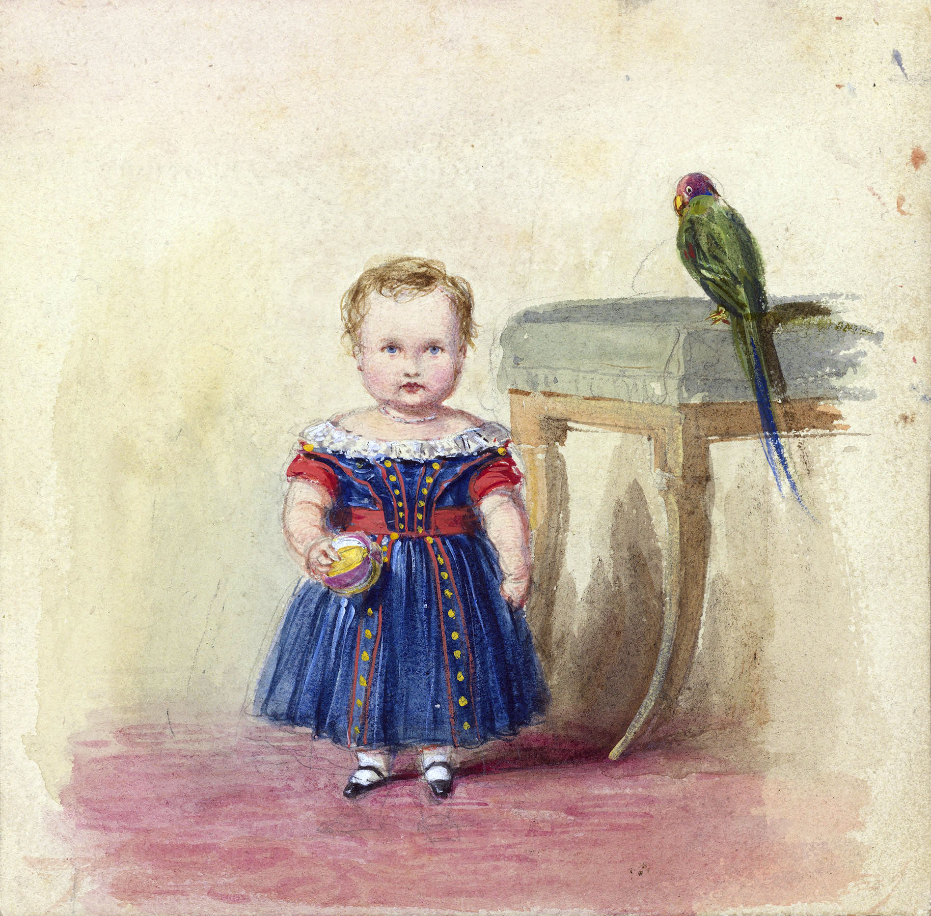 The nursery life of the royal children offered Queen Victoria enormous scope for her own painting and drawing. This watercolour of her first son, Albert Edward, shows him dressed in skirts, as was the custom with small boys, and with a parrot – one of the family pets.